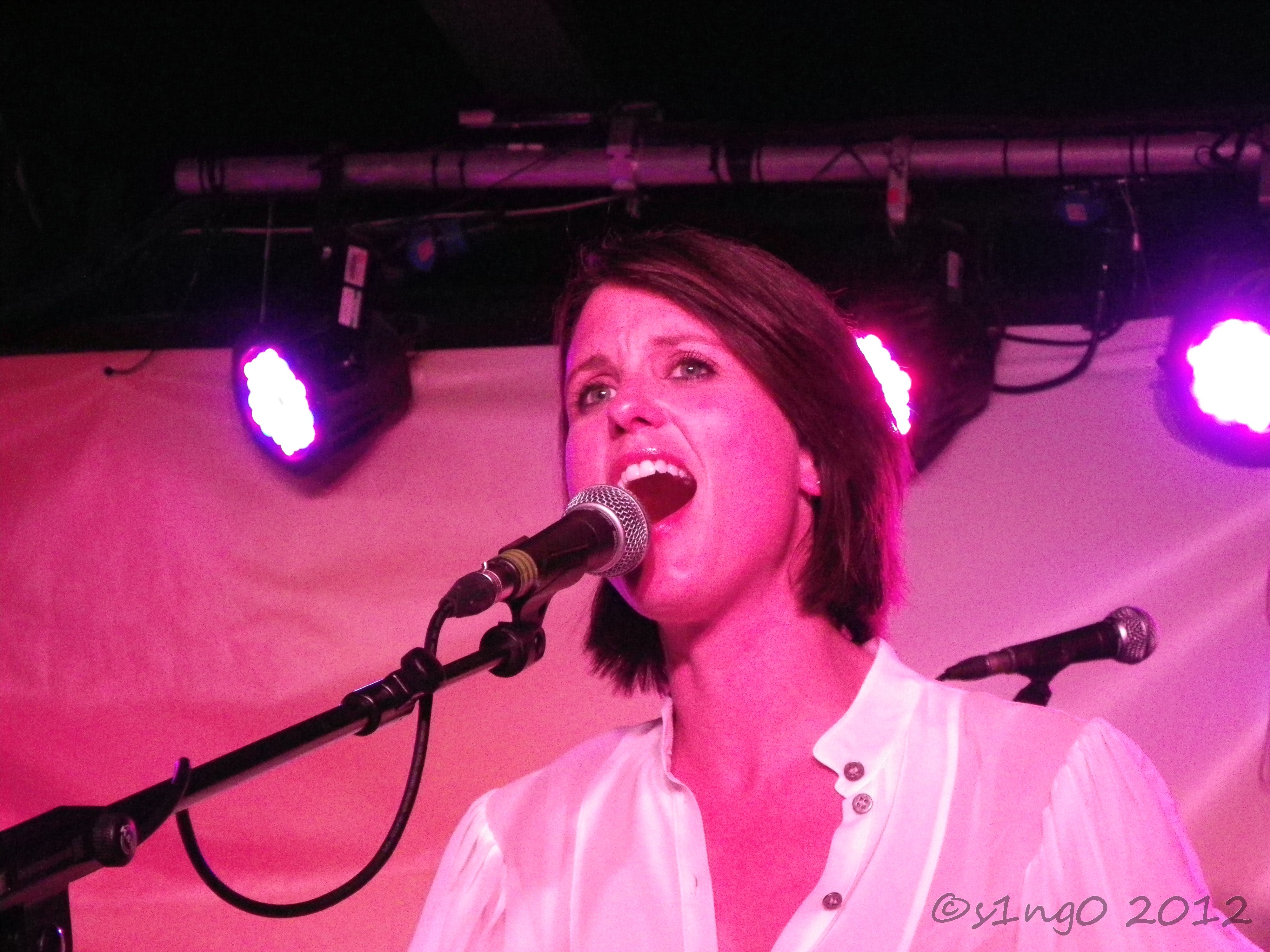 Erics - Liverpool